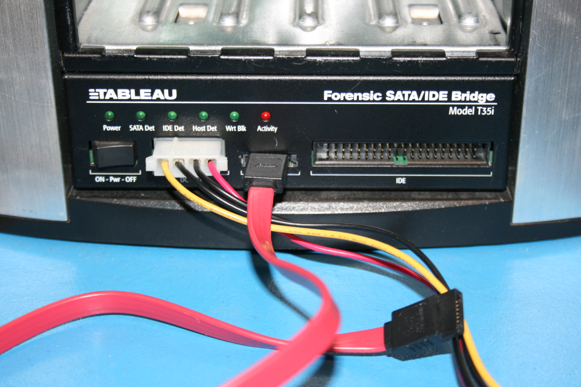 A Tableu internal forensic write-protection module